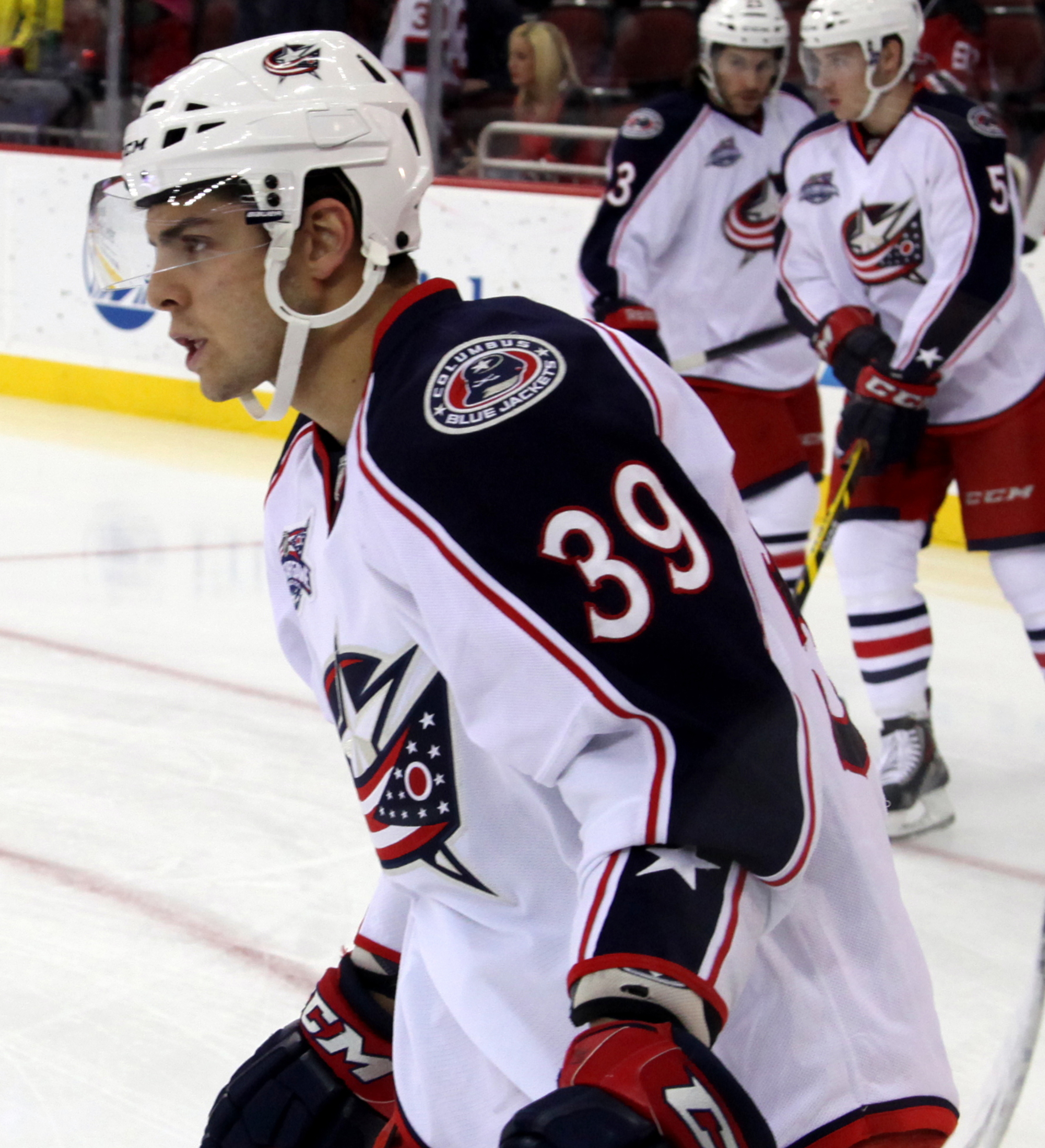 Michael Chaput in November 2014.